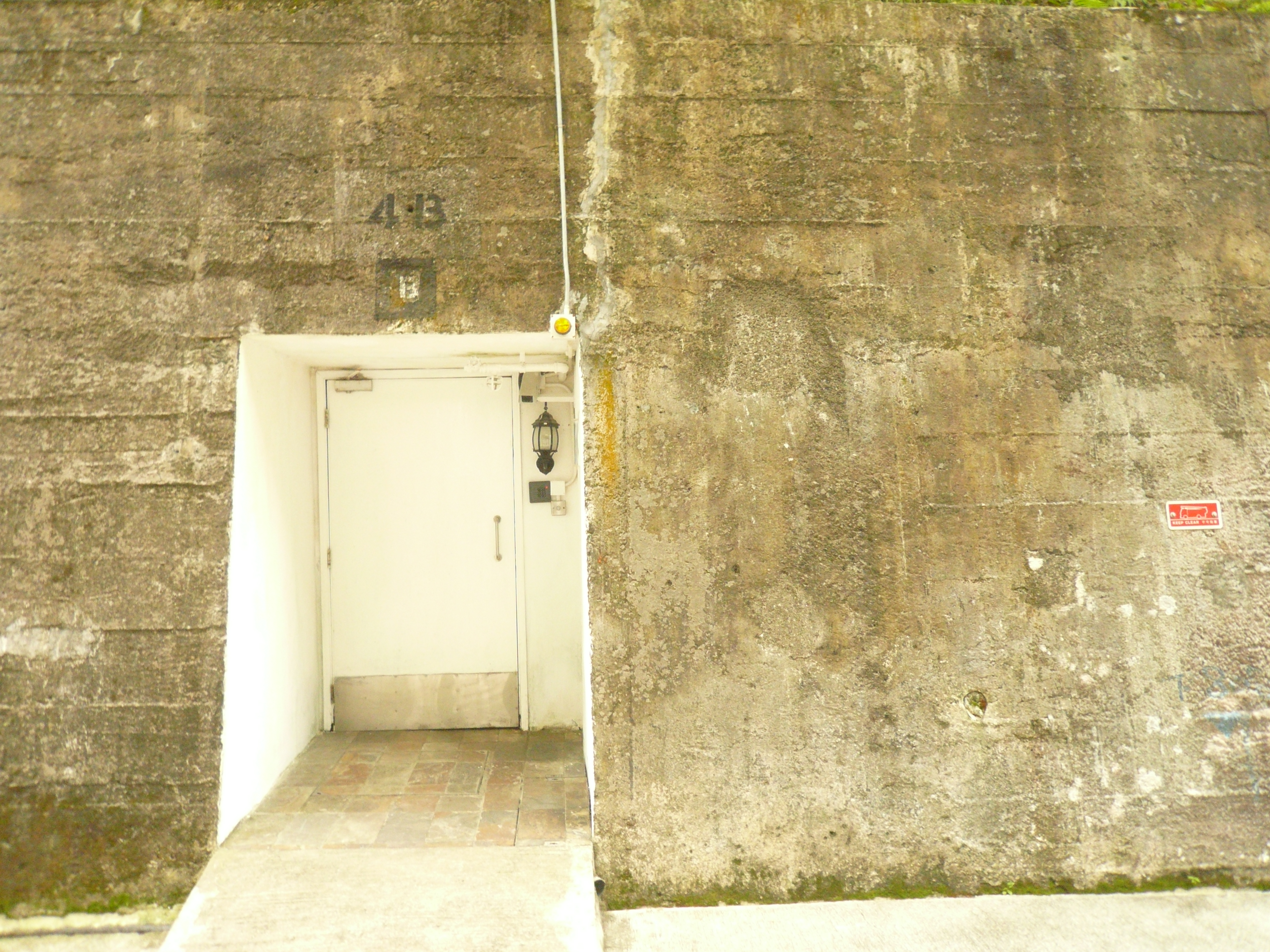 One of the bubkers outside the Crown Wine Cellars